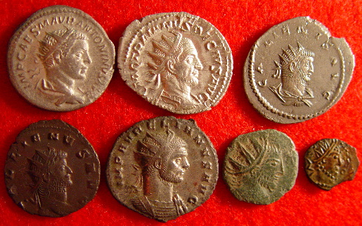 7 Antoninianii;row 1: Elagabalus (silver 218-222AD), Trajan Decius (silver 249-251AD), Gallienus (billon 253-268AD Asian mint);row 2: Gallienus (copper 253-268AD), Aurelian (silvered 270-275AD), barbarous radiate (copper), barbarous radiate (copper)